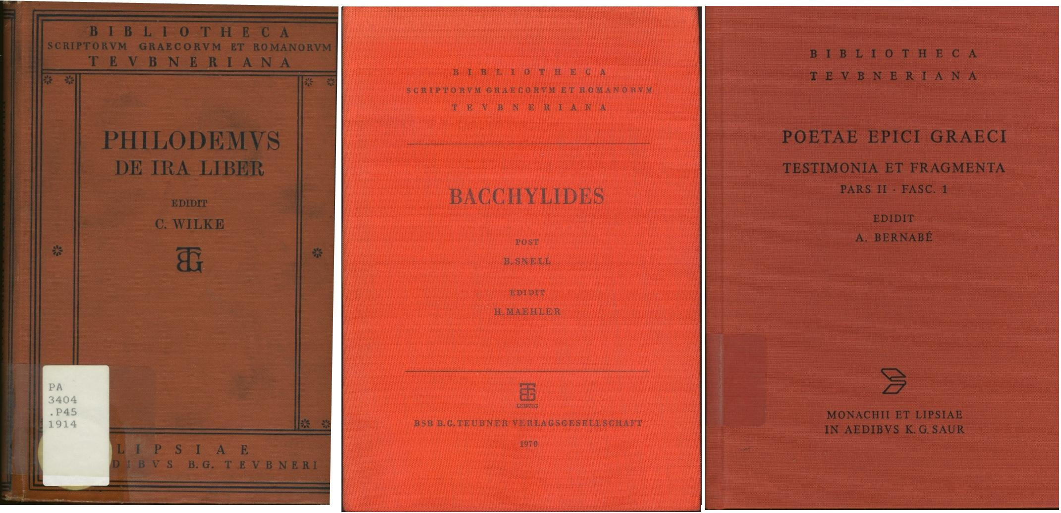 The covers of three volumes published in the Bibliotheca Teubneriana: Philodemi De ira liber, ed. C. Wilke (B.G. Teubner, Leipzig, 1914); Bacchylidis carmina cum fragmentis, post B. Snell ed. H. Maehler (B.G. Teubner, Leipzig, 1970); Poetae epici graeci, Pars II, Fasc. 1, ed. A. Bernabé (K.G. Saur Munich, 2004)